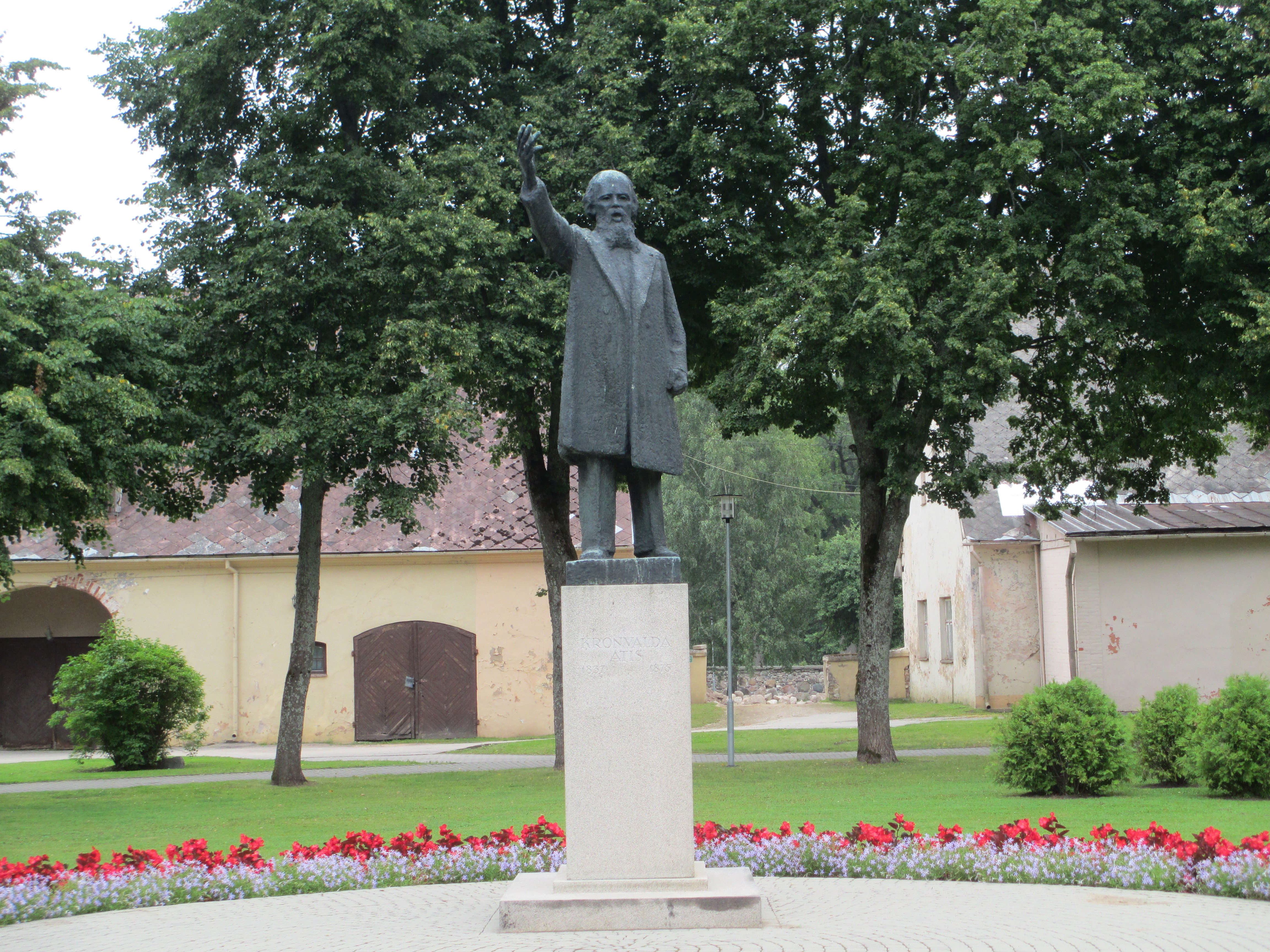 Monument to the latvian teacher and linguist atis kronvalds in sigulda new castle